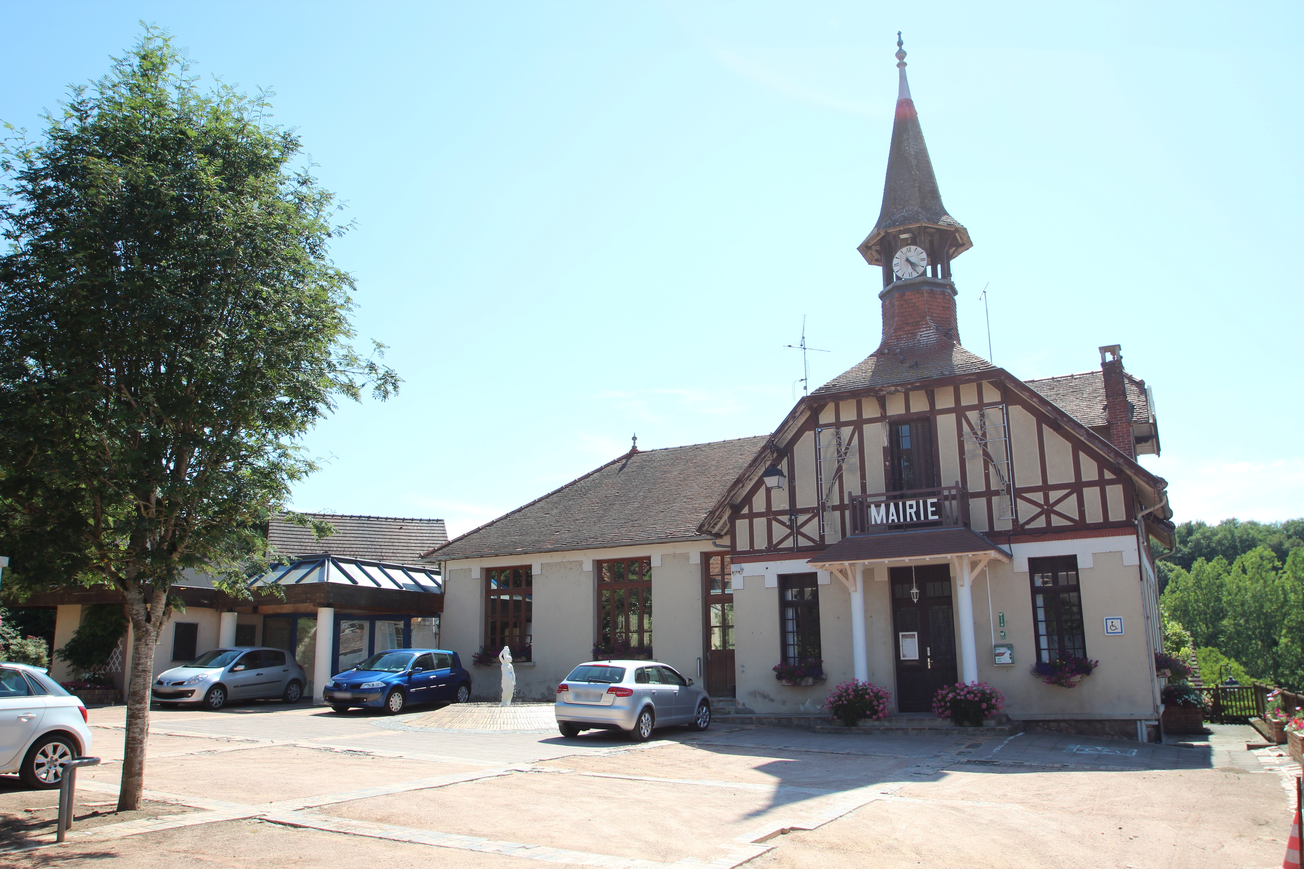 Town hall of Lavault-Sainte-Anne, France. Object location46° 18′ 34.24″ N, 2° 35′ 56.78″ E